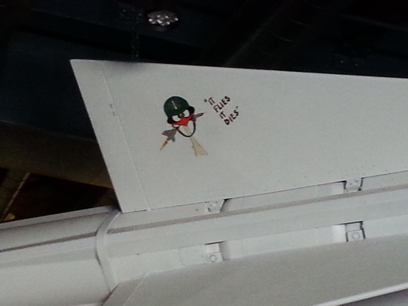 The oozlefinch, mascot of the Air Defense Artillery and formerly of the Coast Artillery, on the fin of a Nike-Ajax missile at Fort Warren, George's Island, Massachusetts.